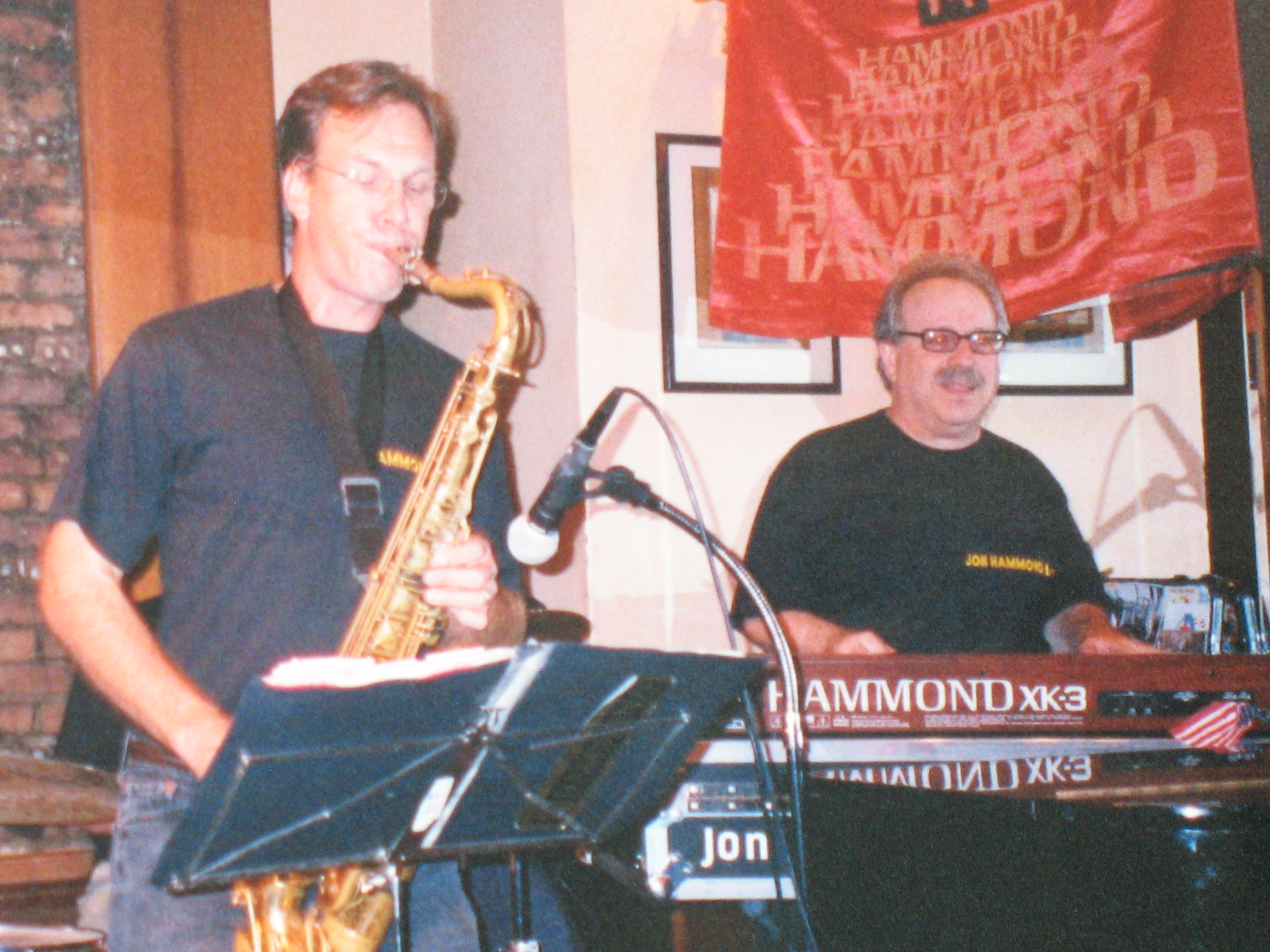 Tenor saxophonist Tim Armacost and Jazz Organist Jon Hammond on Hammond XK-3 organ. Jon Hammond band in concert at Cleopatra's Needle in New York City.